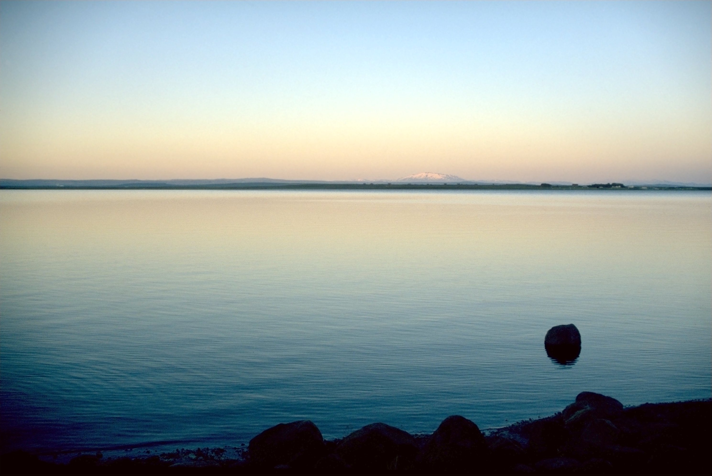 Laugarvatn, vulcano Hekla in background, Iceland Photo was taken using the following technique: Film: Kodac Elite 100 Lens: 28-80 Filter: Body: Minolta 600si Support: Image with Information in English Bild mit Informationen auf Deutsch